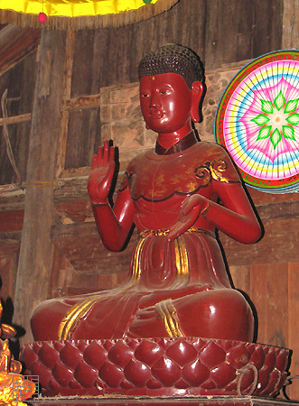 Phap Van (Cloud Goddess) statue in Keo pagoda, Gia Lam, Ha Noi, Vietnam